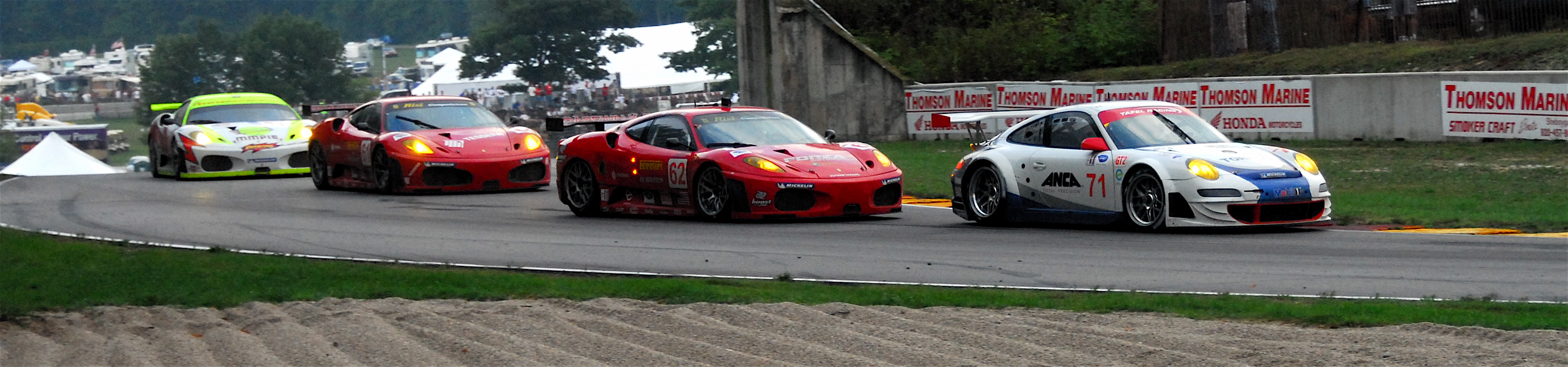 American Le Mans Series, 2007, Road America Generac 500